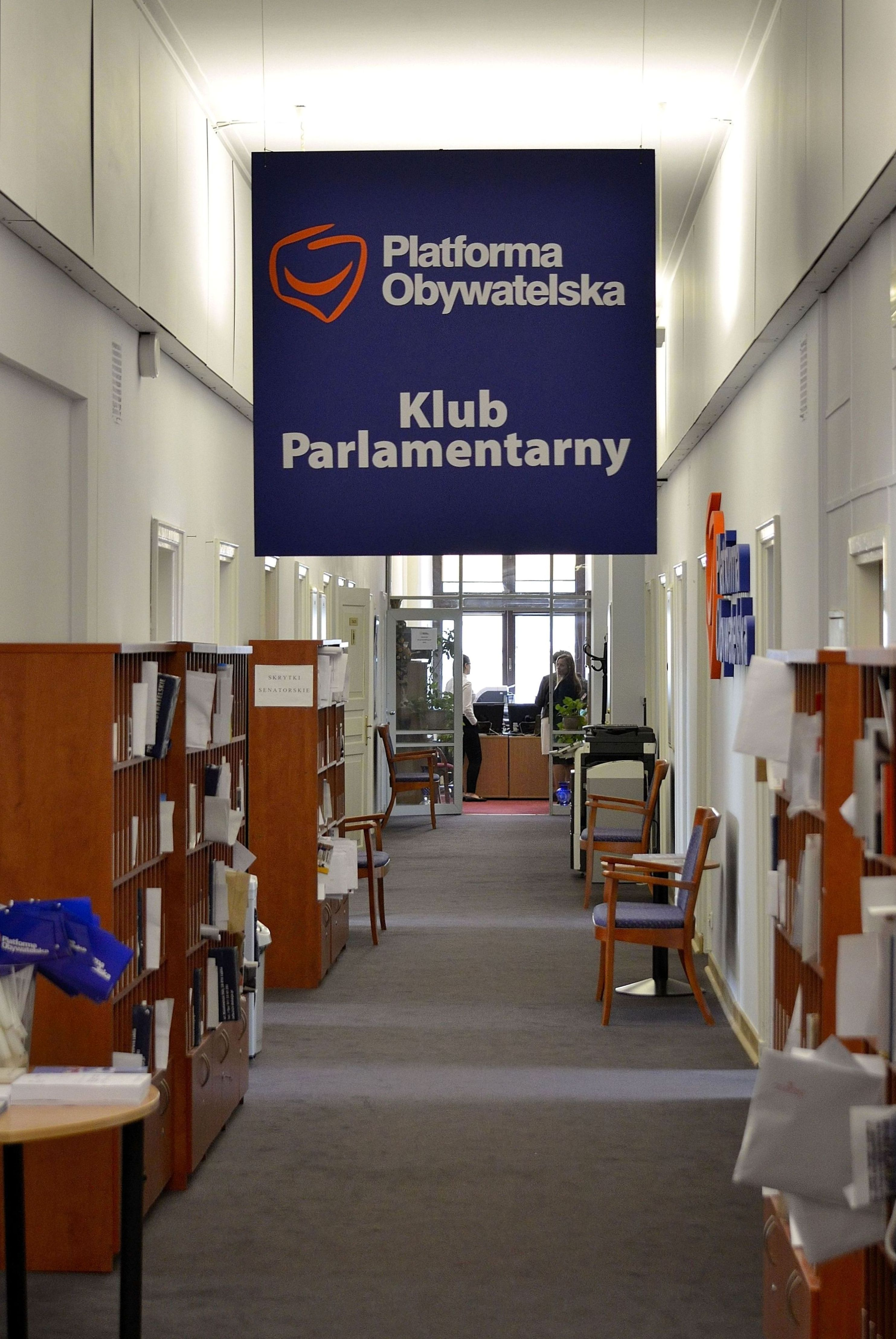 Seat of the Civic Platform parliamentary club in the Sejm